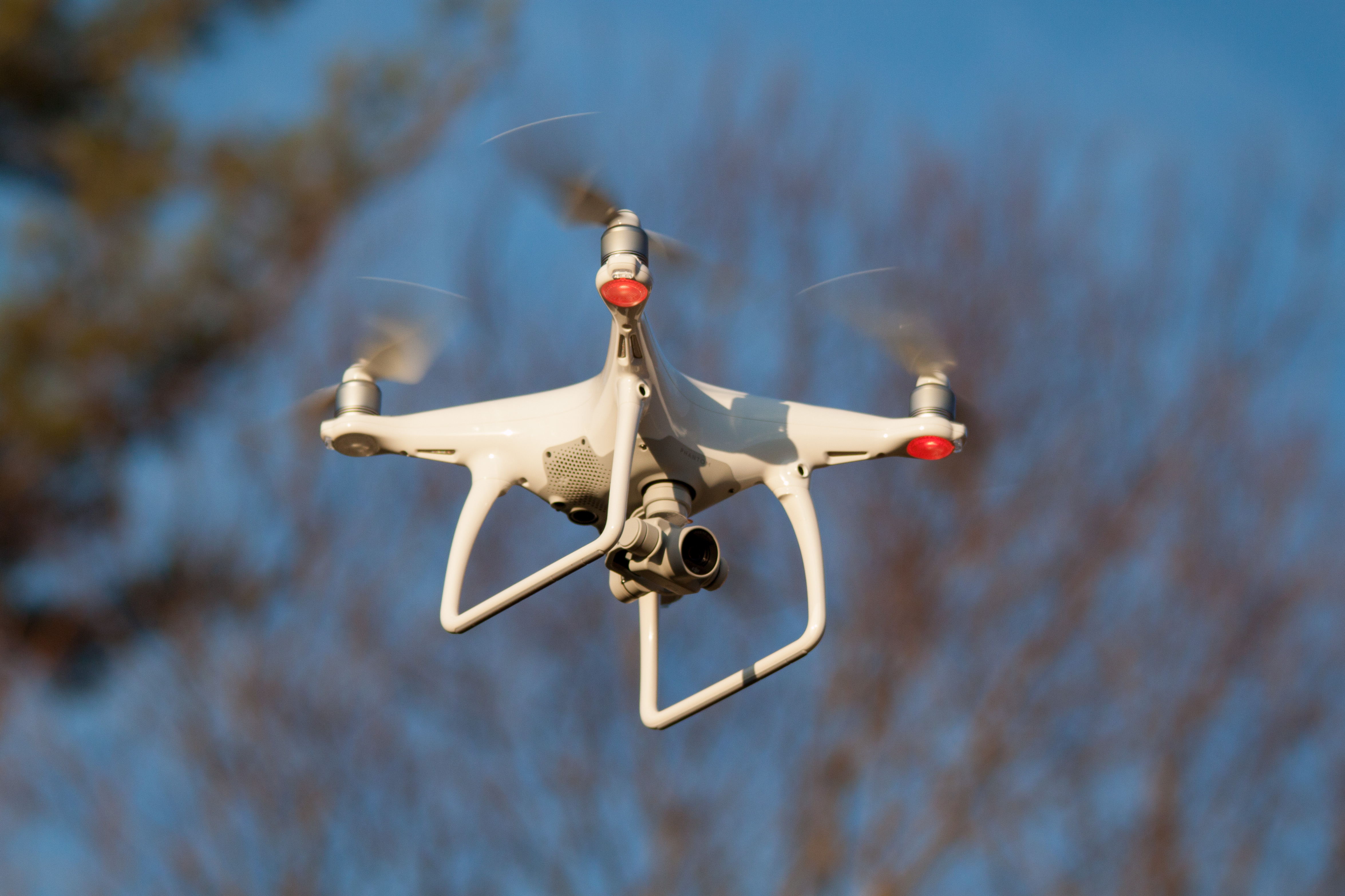 This is a new (2016) advanced quadcopter with a high definition 4k stabilized video and still camera, GPS stabilization, automatic obstacle avoidance, and many other features.